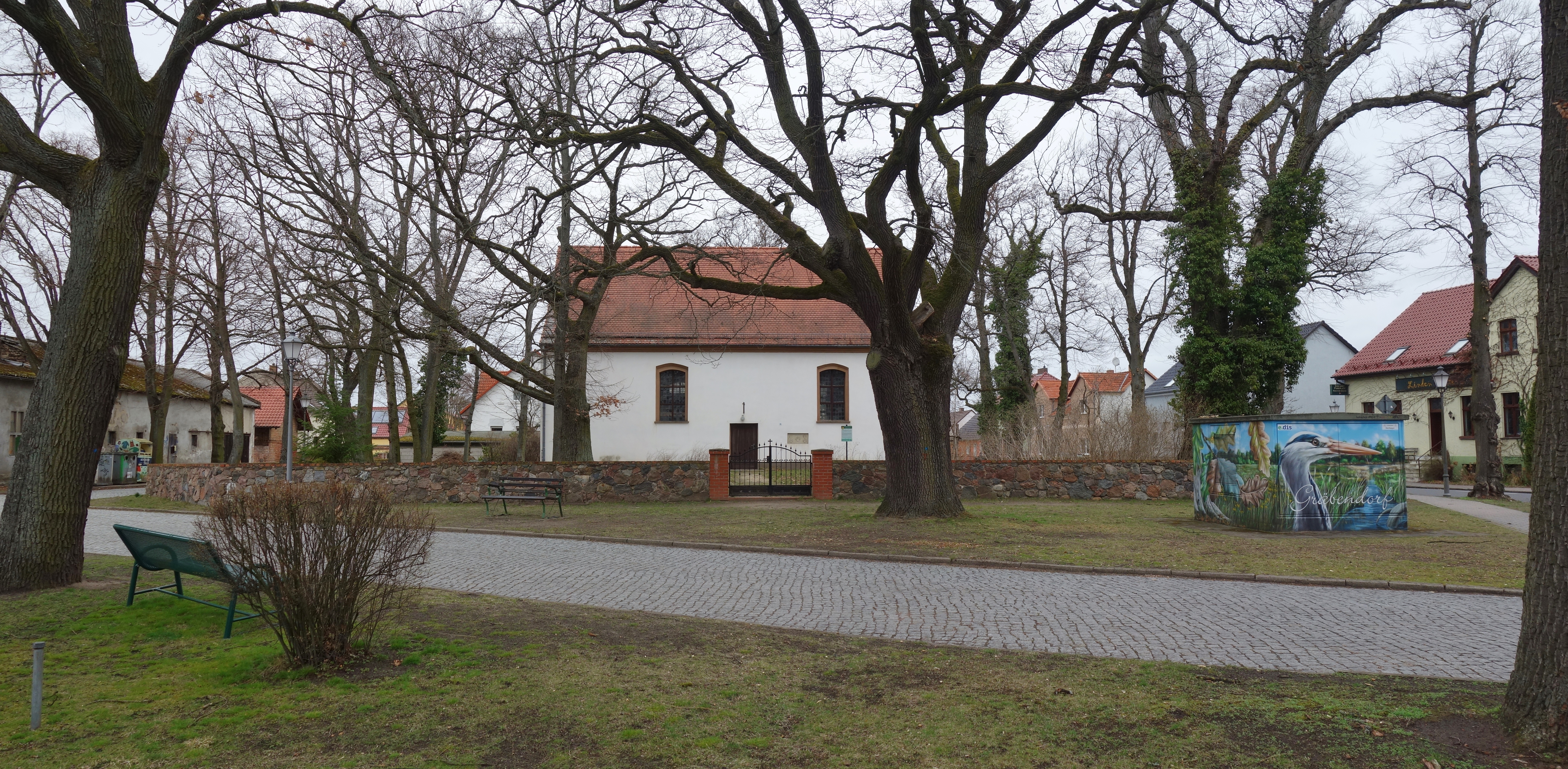 Southern view of the village green in Gräbendorf , Heidesee municipality , Dahme-Spreewald district, Brandenburg state, Germany.